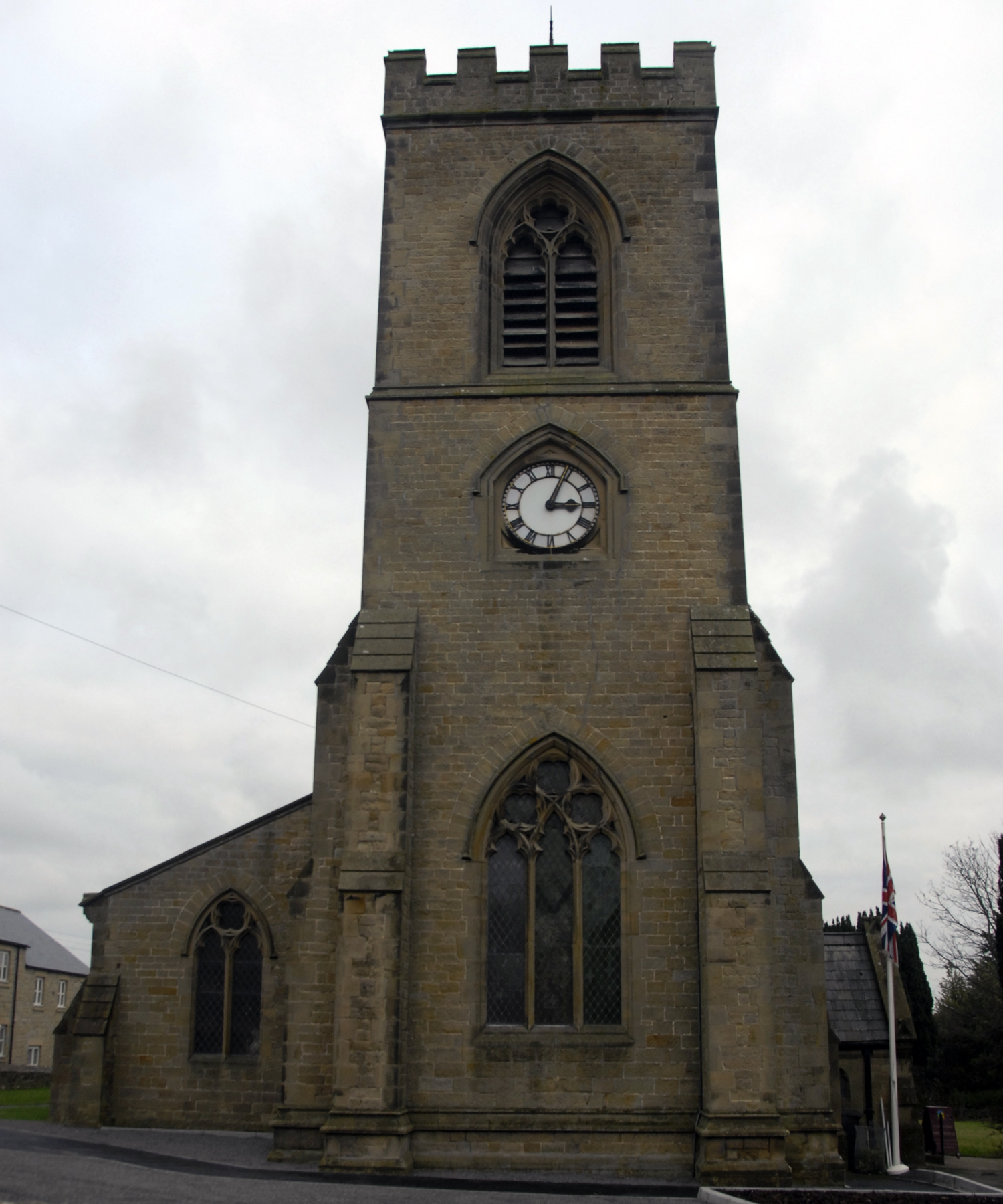 St Matthew's parish church, Leyburn, North Yorkshire, seen from the northwest